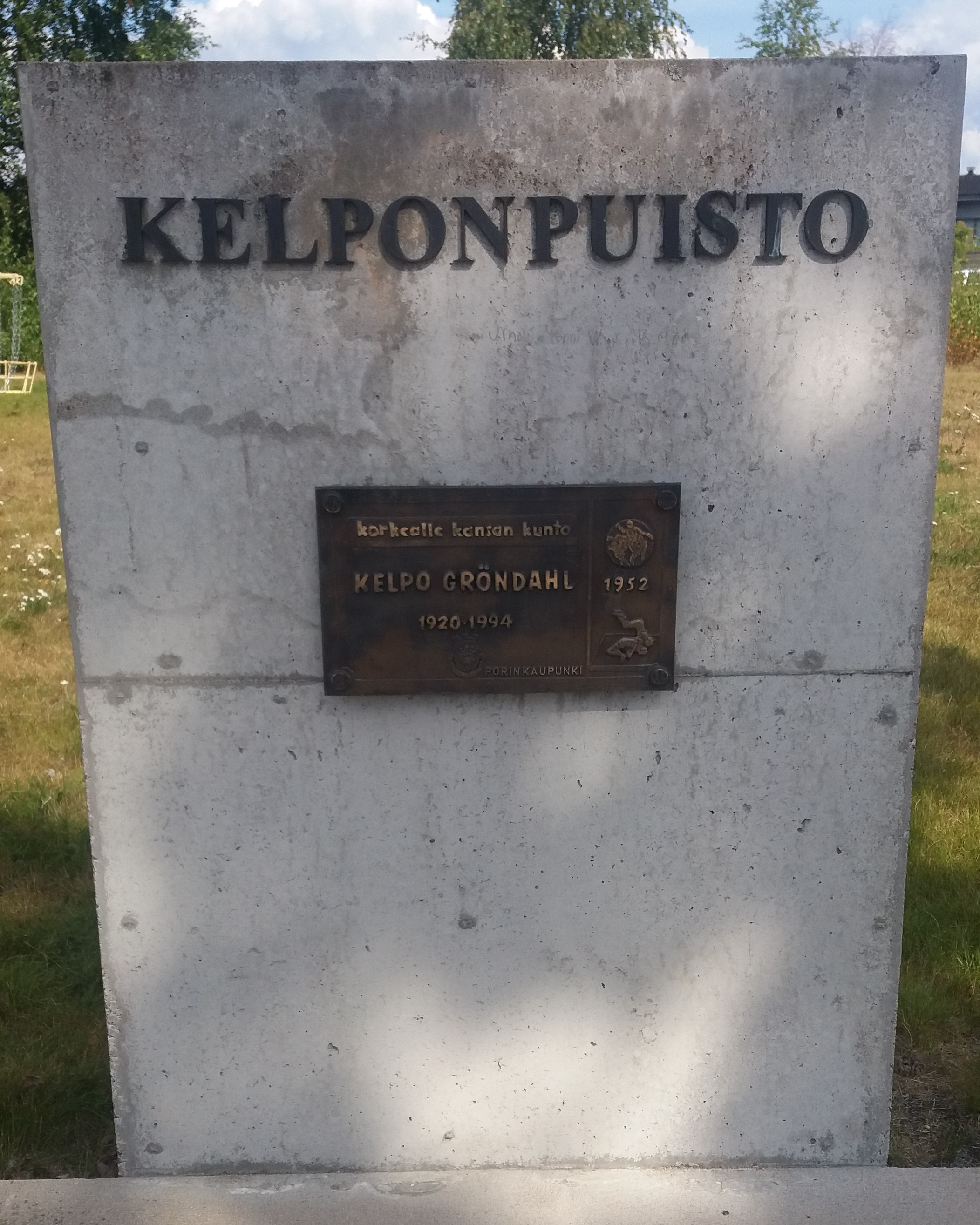 Memorial plaque of the Olympic gold medalist Kelpo Gröndahl (1920-1994) in the Kelponpuisto Park, Reposaari, Pori, Finland.